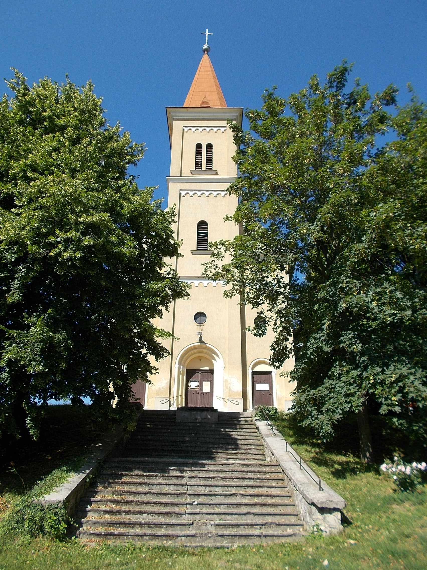 Saint Ladislaus church. In the Middle Ages here was placed the St. Margaret Martyr Basilica. In its place a small chapel built sacred to Saint Ladislas in 1740. Today's neo-Romanesque church built in 1902. (The parish building (close to it) was built in 1941) in Dózsaváros Veszprém, Veszprém County, Hungary.